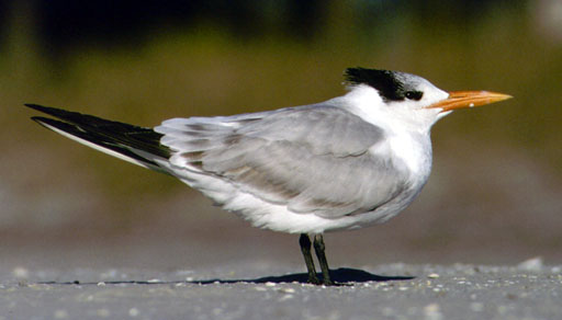 Royal Tern, Sterna maxima. Location: Hilton Head, South Carolina, United States